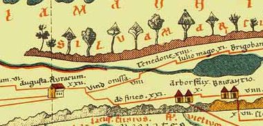 Tabula Peutingeriana, 1-4th century CE. Facsimile edition by Conradi Millieri, 1887/1888